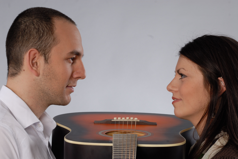 Preslava Andreeva and Nikolay Dimitrov